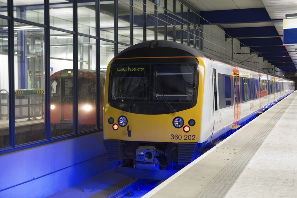 Heathrow Terminal 5 - Piccadilly Line & Heathrow Connect